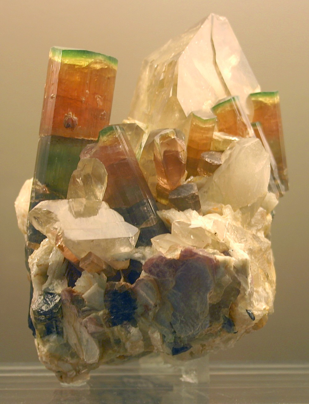 Source: Chris Ralph. This photo taken by Chris Ralph of [1], Photographer and author: photo by author.